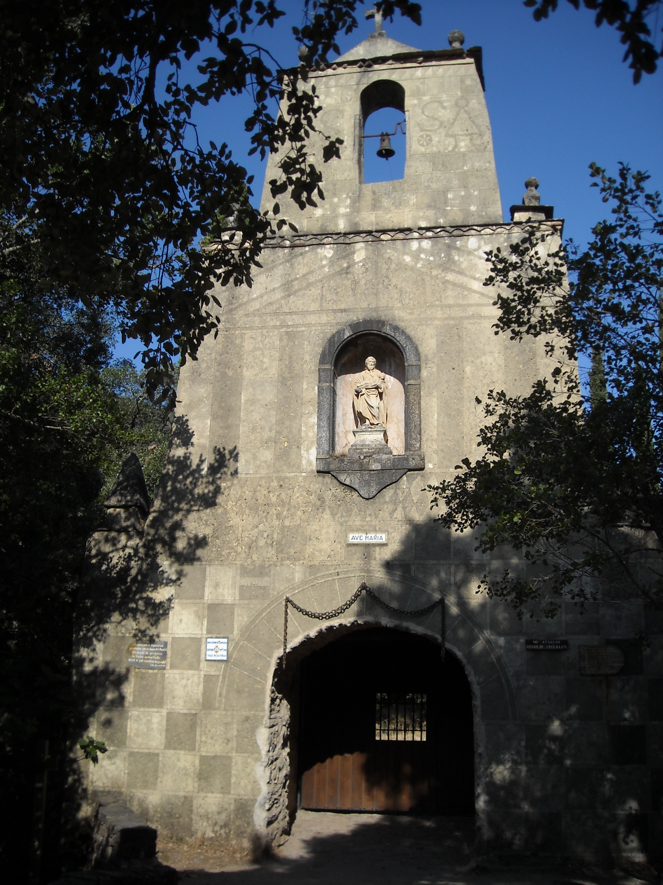 Entrance to the Monastery of Las Batuecas, La Alberca, Salamanca, Spain